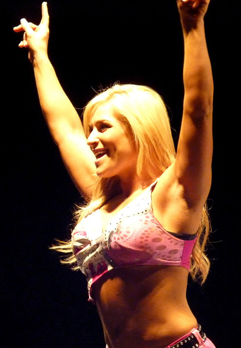 WWE Natalya at a house show in Amnéville